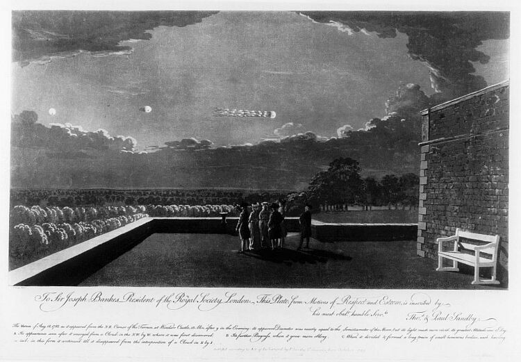 Print; printed in black and sepia; copy held by the Hunterian Museum and Art Gallery, University of Glasgow (Accession number GLAHA3765). "To Sir Joseph Banks President of the Royal Society, London, This Plate from Motives of Respect and Esteem is inscribed by his most obedt humble servt Thos and Paul Sandby. The Meteor of Aug 18 1783 as it appeared from the NE Corner of the Terrace, at Windsor Castle, 18 Min after 9 in the Evening: it's apparent Diameter was nearly equal to the Semidiameter of the Moon, but its light much more vivid, it's greatest Altitude was 25 Deg. A. It's appearance soon after it emerged from a Cloud in the NW by W where it was first discovered B It's further Progress when it grew more oblong C. When it divided and formed a long train of small luminous bodies, each having a tail: in this form it continued until it disappeared from the interposition of a Cloud in E by S".